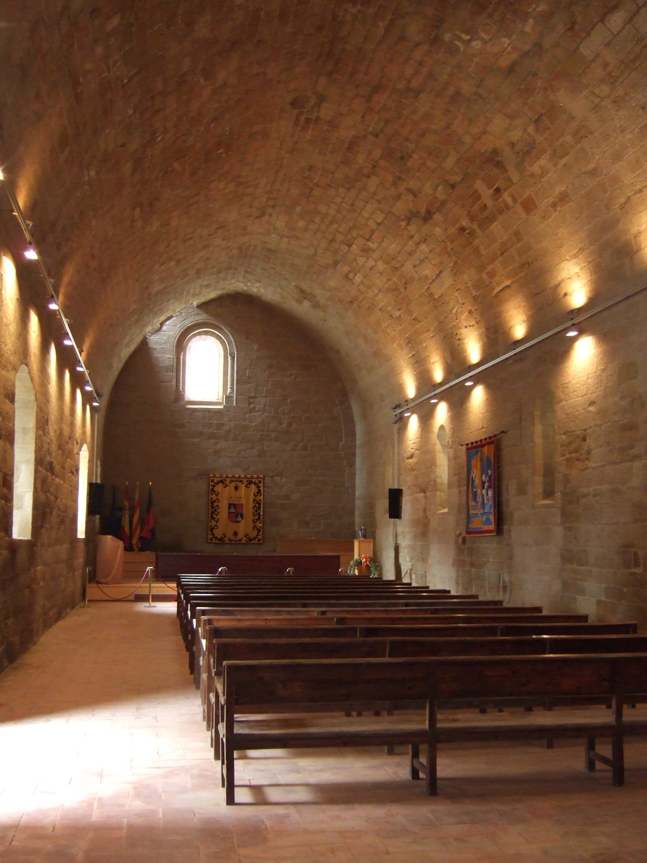 Castle of Monzon (Aragon, Spain)